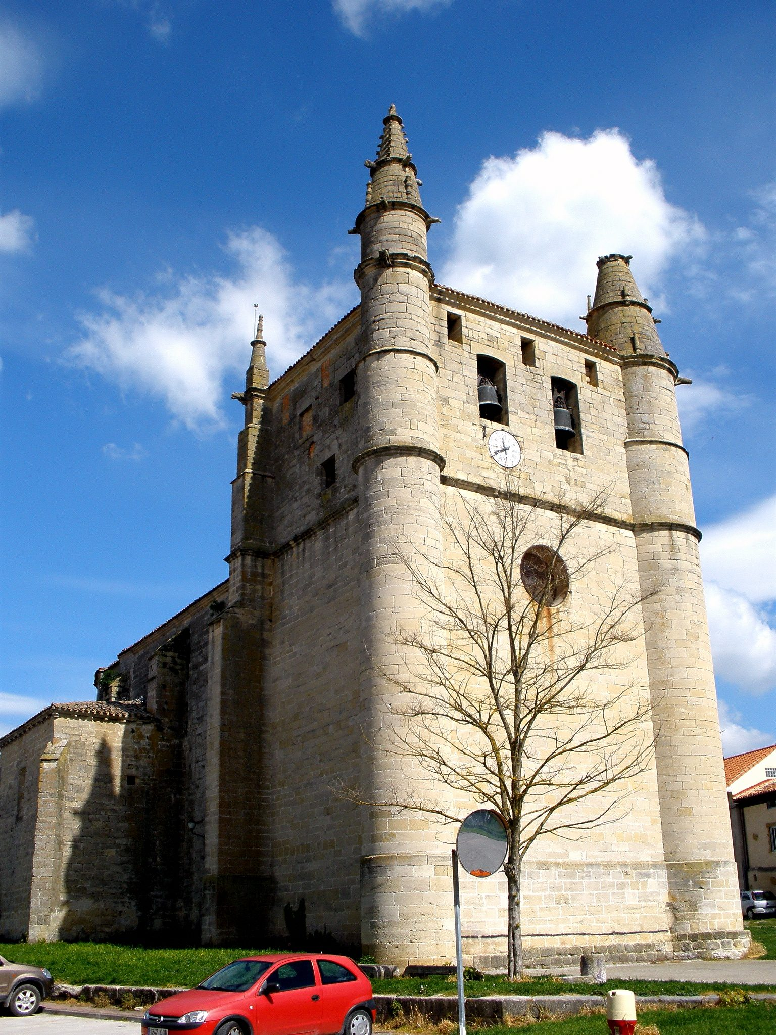 Iglesia de San Esteban, en Orón (Ayto. de Miranda de Ebro, provincia de Burgos, Castilla y León, España).